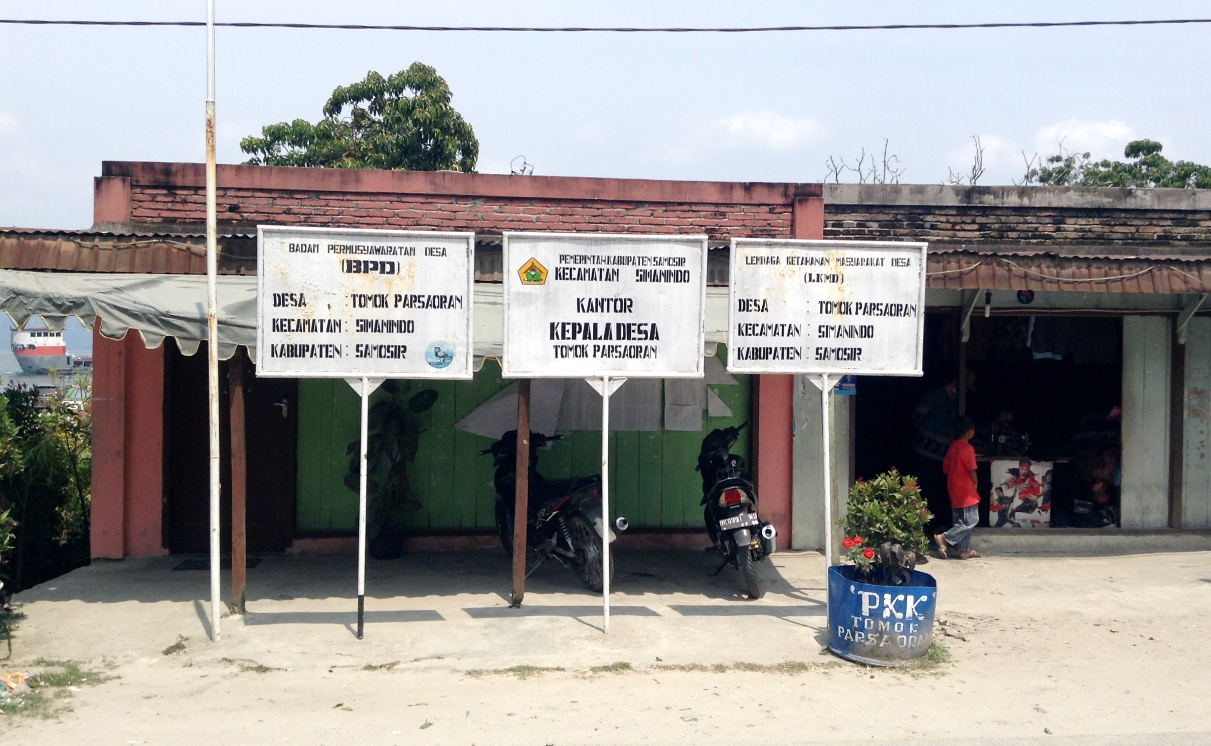 Office village of Tomok Parsaoran, Simanindo, Samosir, North Sumatra, Indonesia.